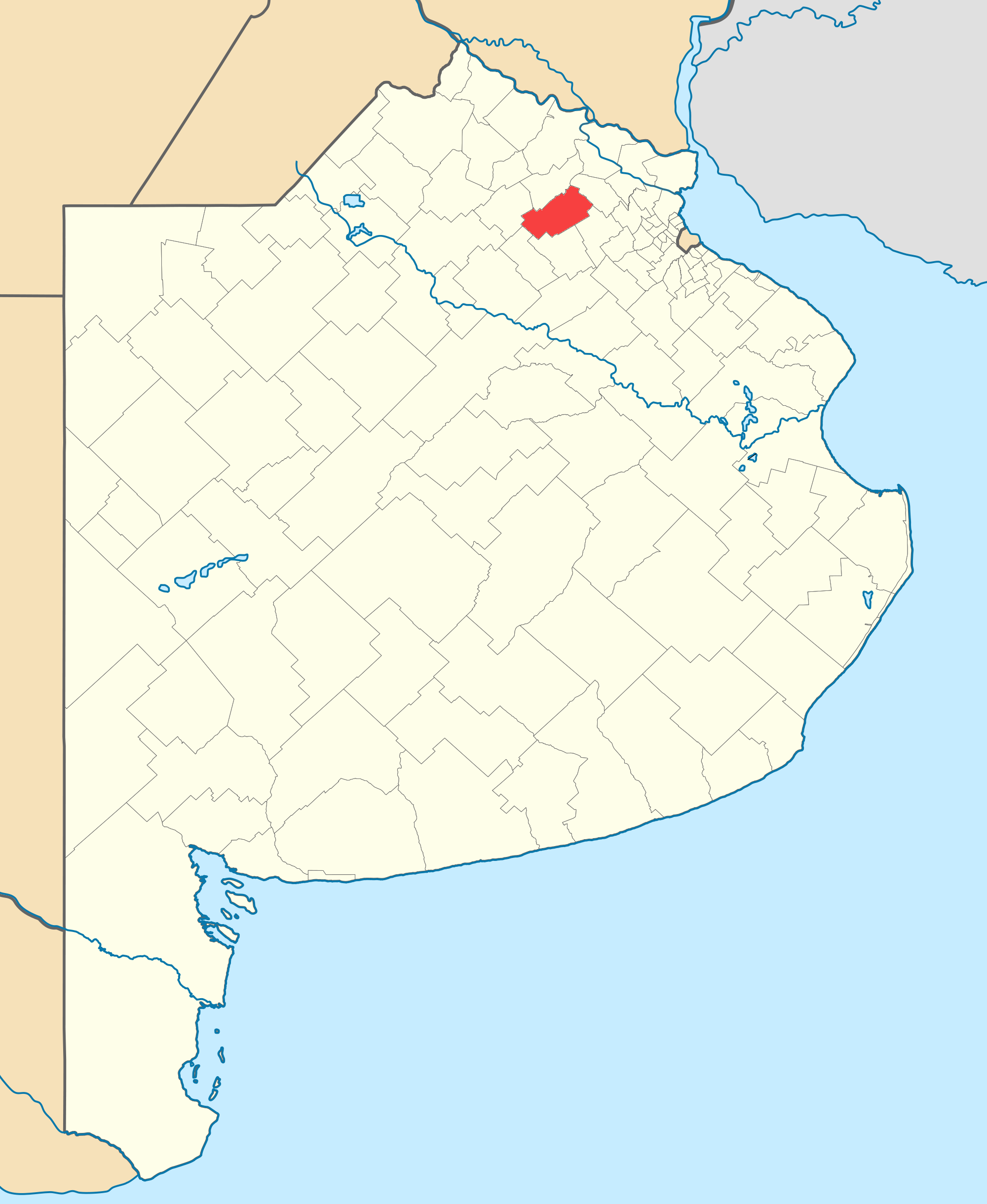 Ubication of San Andrés de Giles in the Province of Buenos Aires